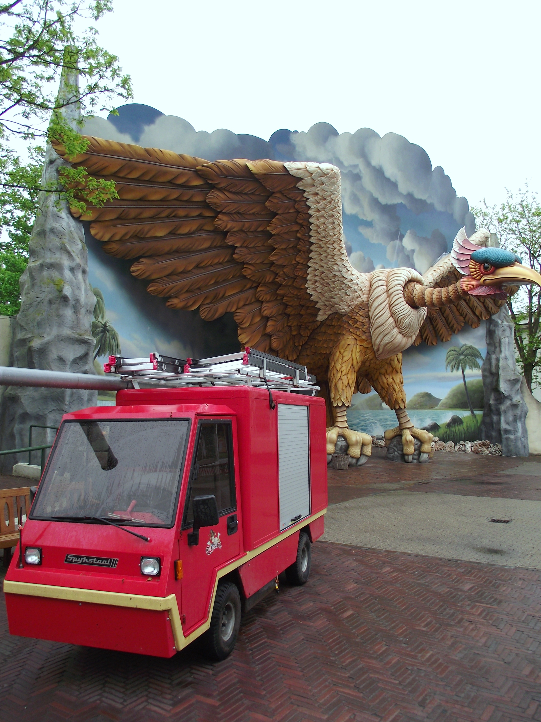 Vogel Rok and Fire apparatus at Efteling